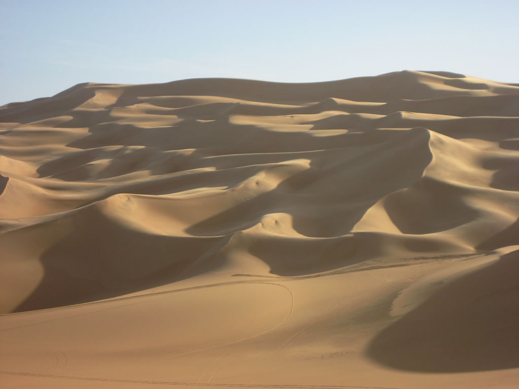 Sand dunes of the Libyan Sahara.